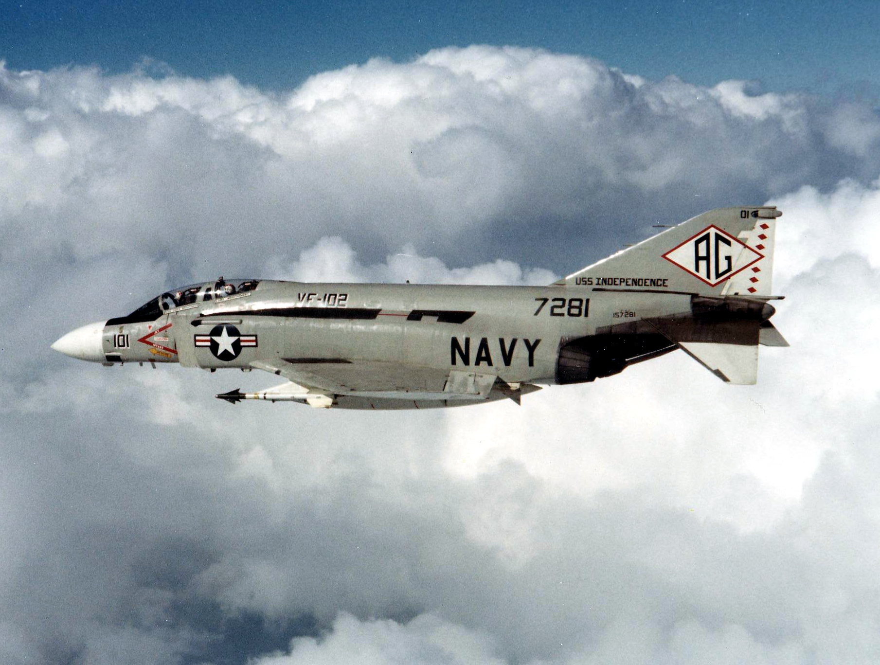 A U.S. Navy McDonnell F-4J-42-MC Phantom II (BuNo 157281) of Fighter Squadron VF-102 "Diamondbacks" in flight. VF-102 was assigned to Carrier Air Wing 7 (CVW-7) aboard the aircraft carrier USS Independence (CV-62) for a deployment to the Mediterranean Sea from 30 March to 21 October 1977.